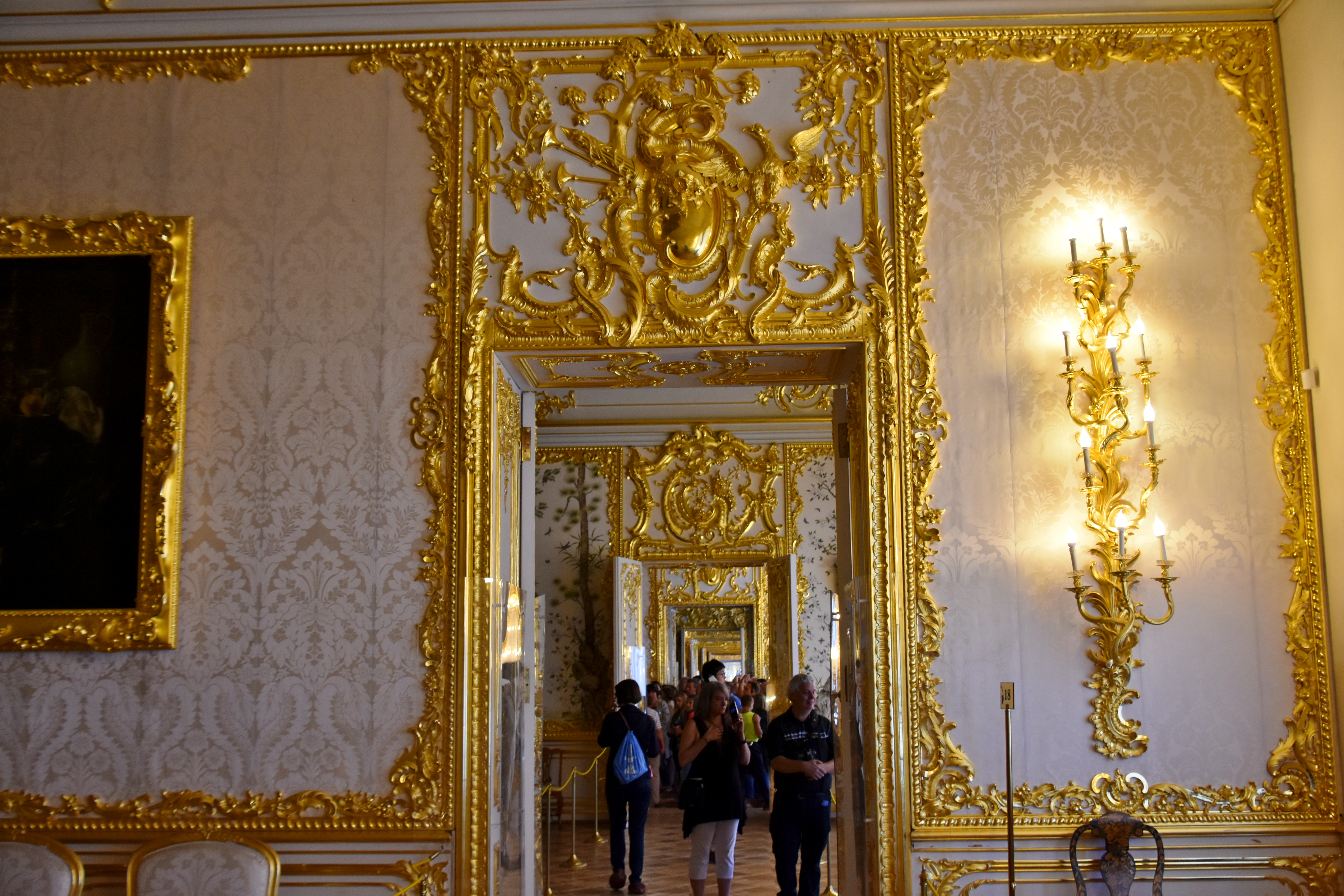 Catherine Palace at Tsarskoe Selo, 18th century (63)